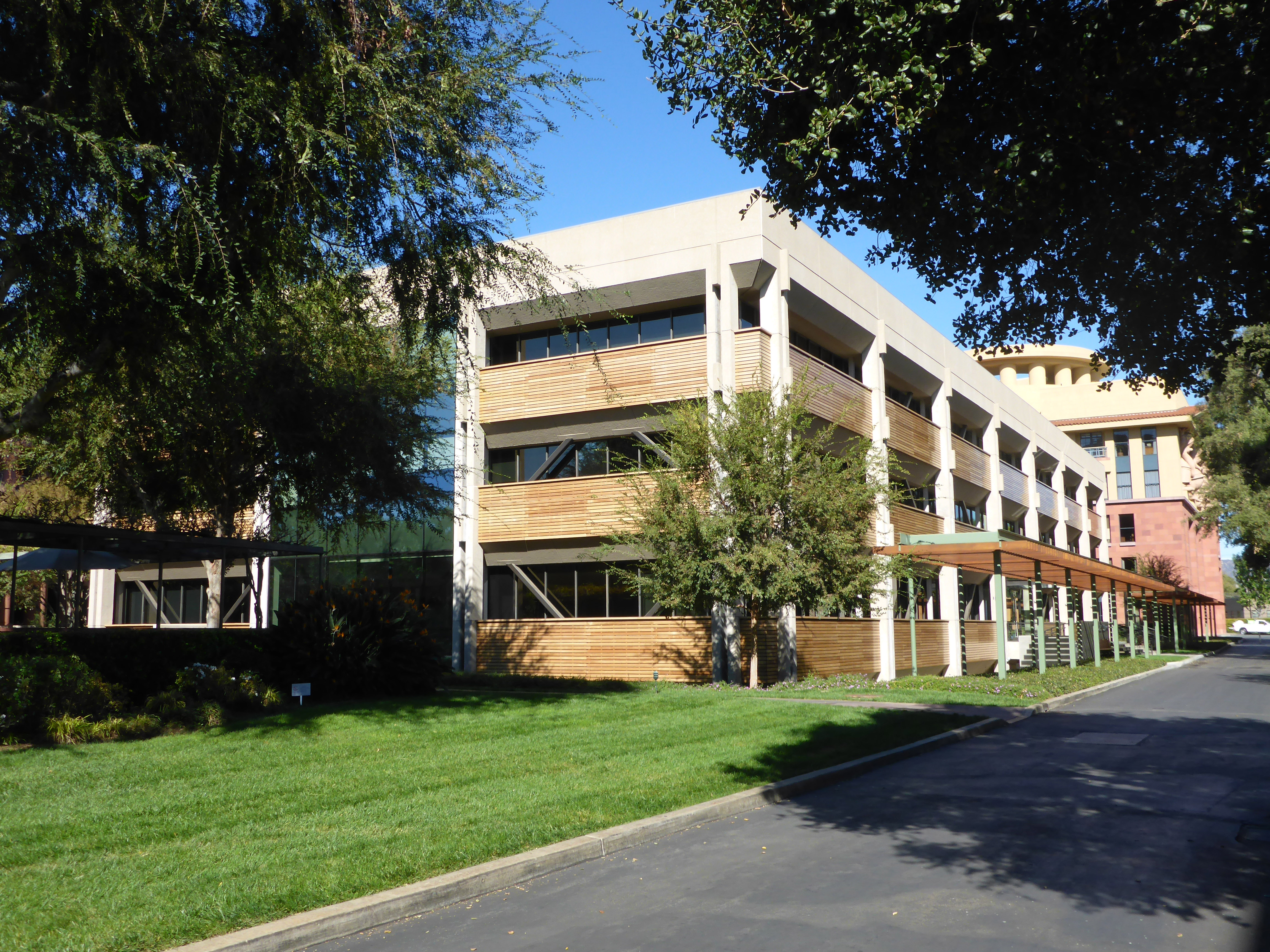 The Roy O. Disney Building at the Walt Disney Studios in Burbank, California. Photographed by user Coolcaesar on November 8, 2014.